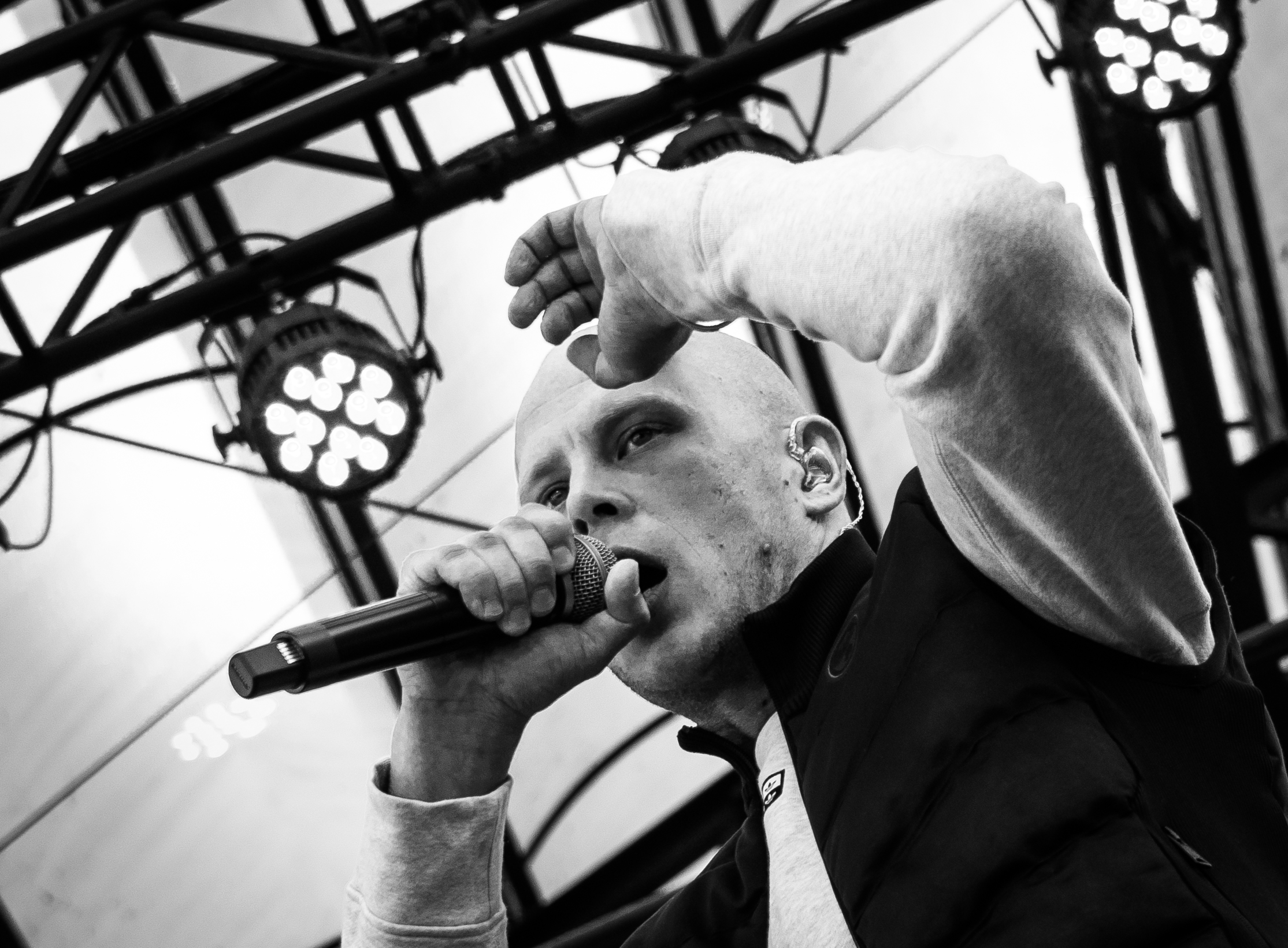 The Fridays for Future climate demonstration on September 27 in Stockholm attracted 50,000 people and culminated in Kungsträdgården with concerts and speeches.